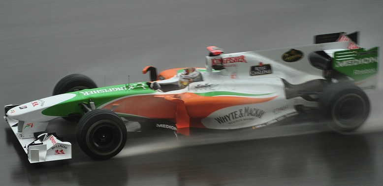 Sutil 2010 here